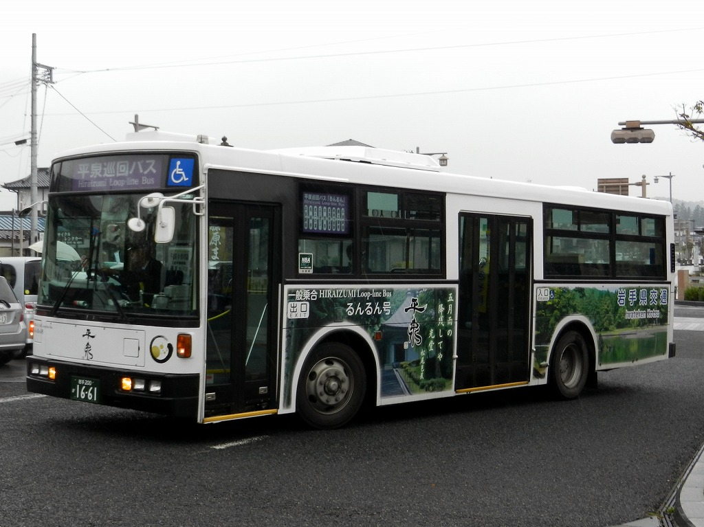 Iwateken kotsu Nissan Diesel KC-UA460HAN (for Tokyo Toei bus)for Hiraizumi town loop bus "Run-Run go"